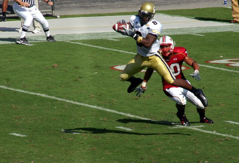 Demaryius Thomas catches a pass in a 2007 vs the Maryland Terrapins.